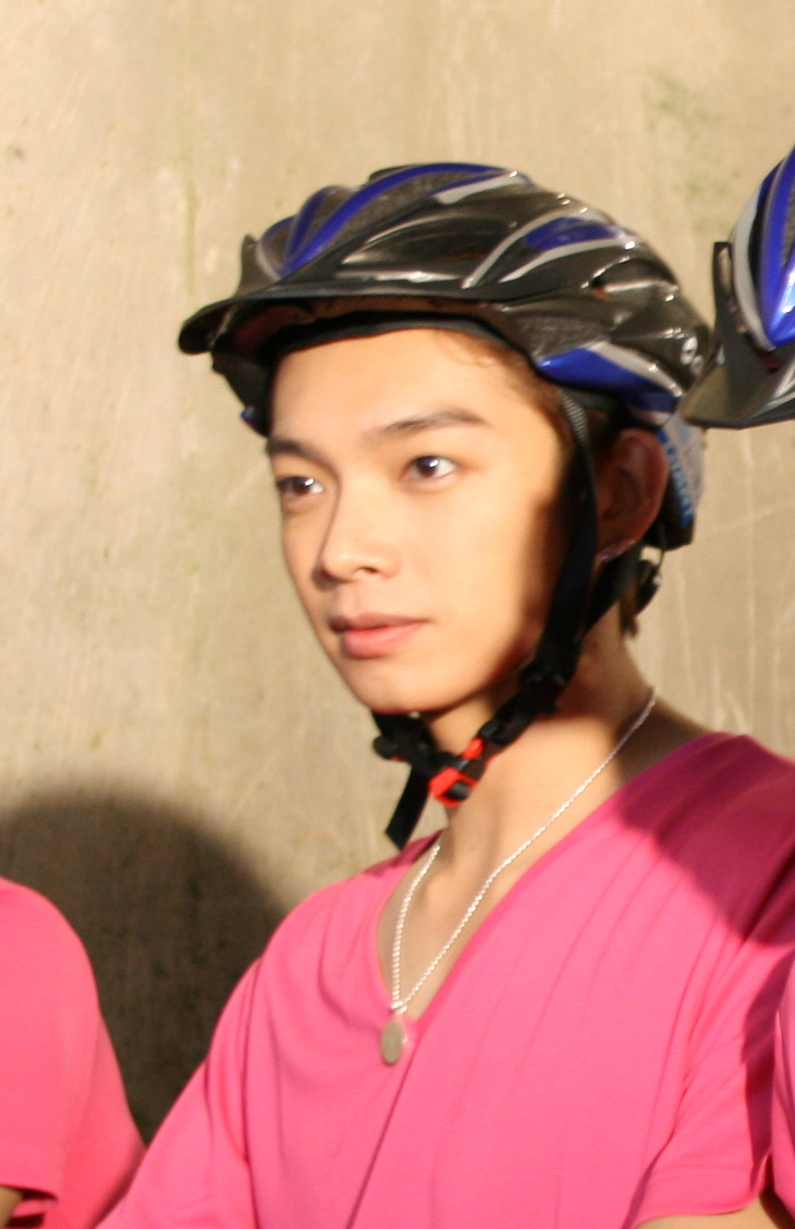 Fahrenheit at the Let's Bike Taiwan 2009.